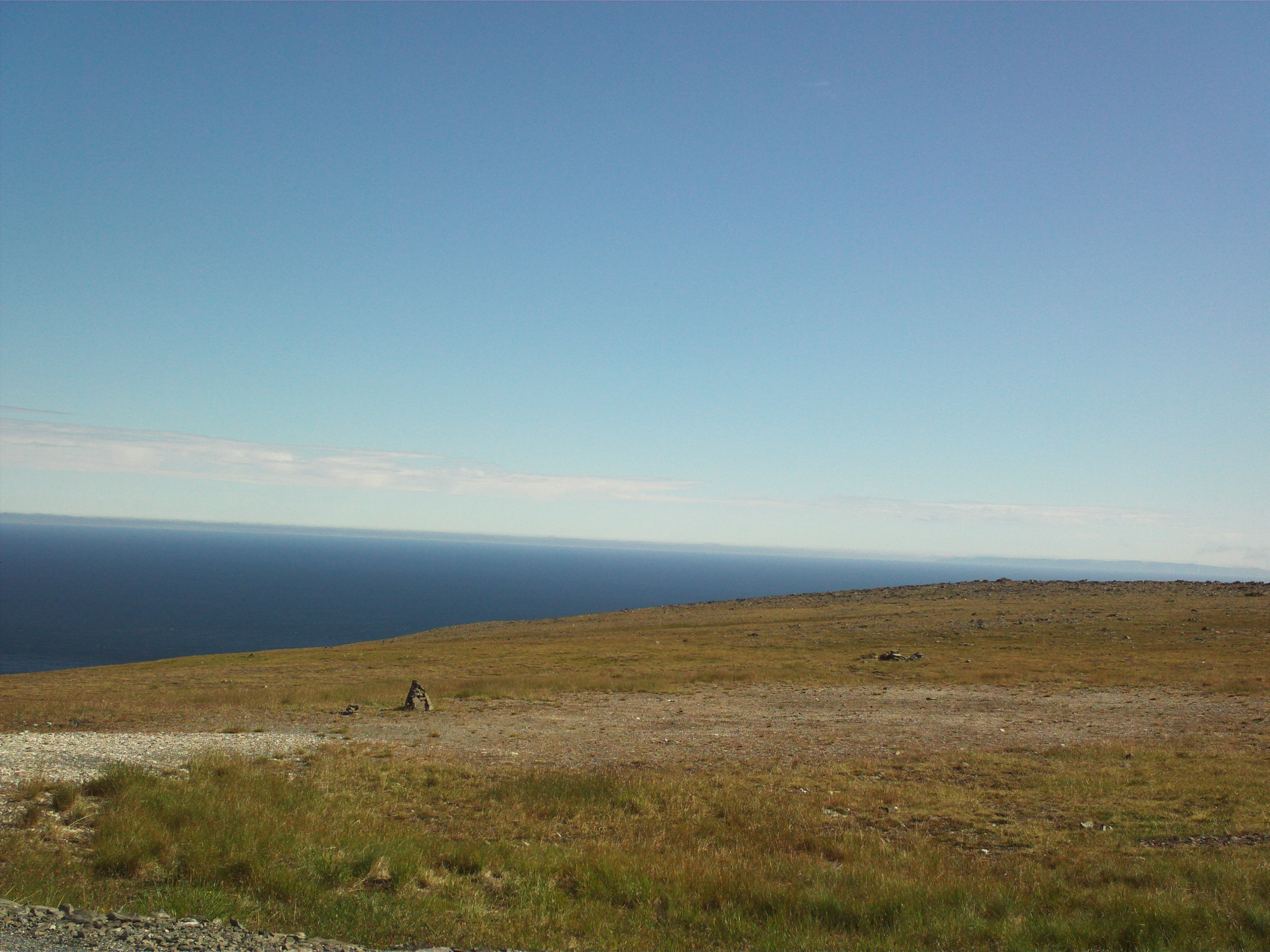 Next: the North Pole. View to the north from Europe's northernmost point., Nordkapp.